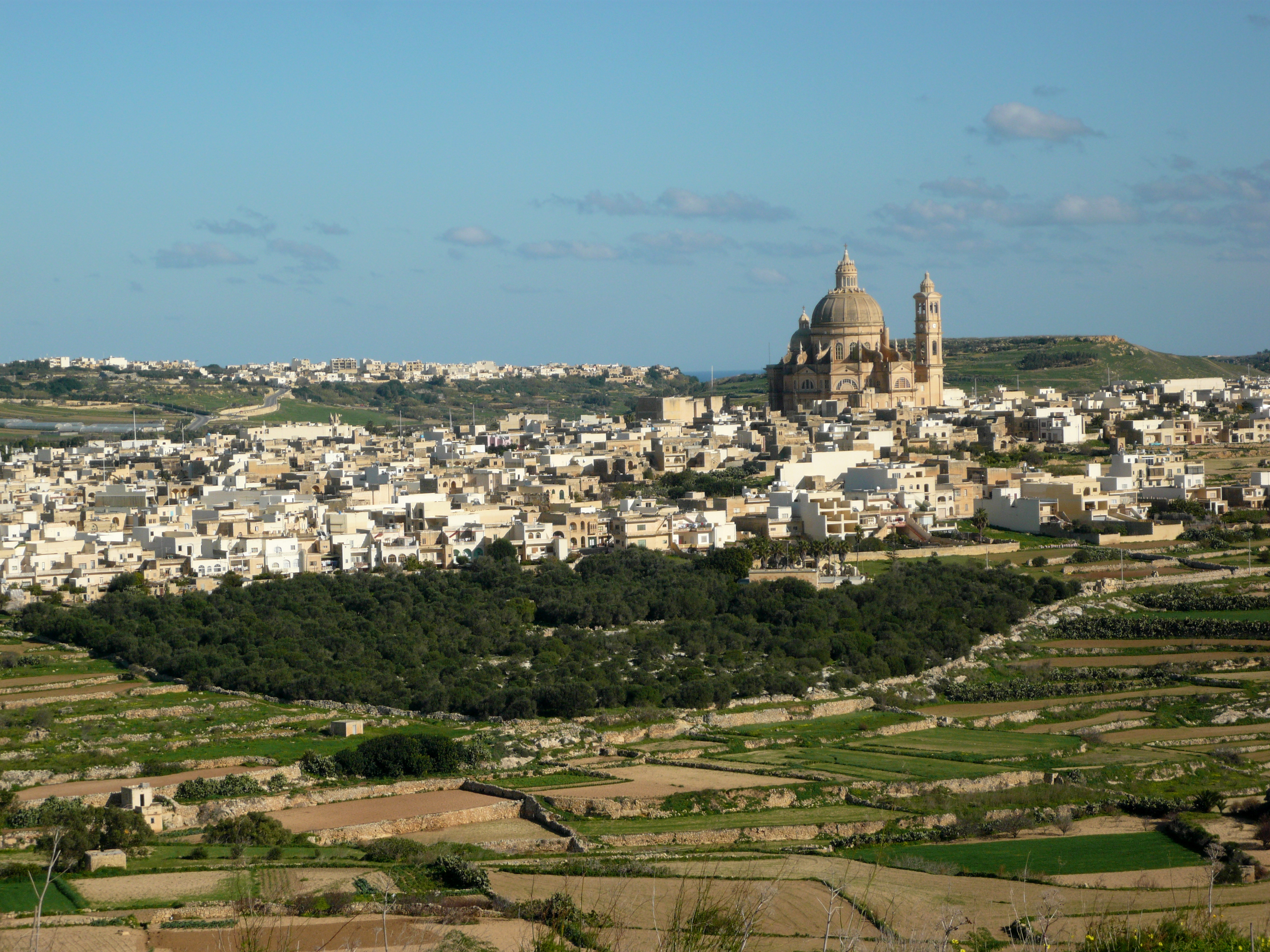 View on the village Xewkija, Gozo (Malta), with the notable Rotunda